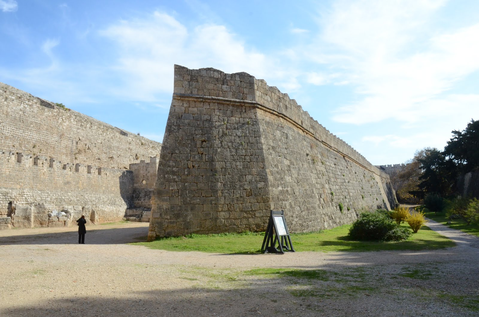 Rhodes-Terre plein of Spain